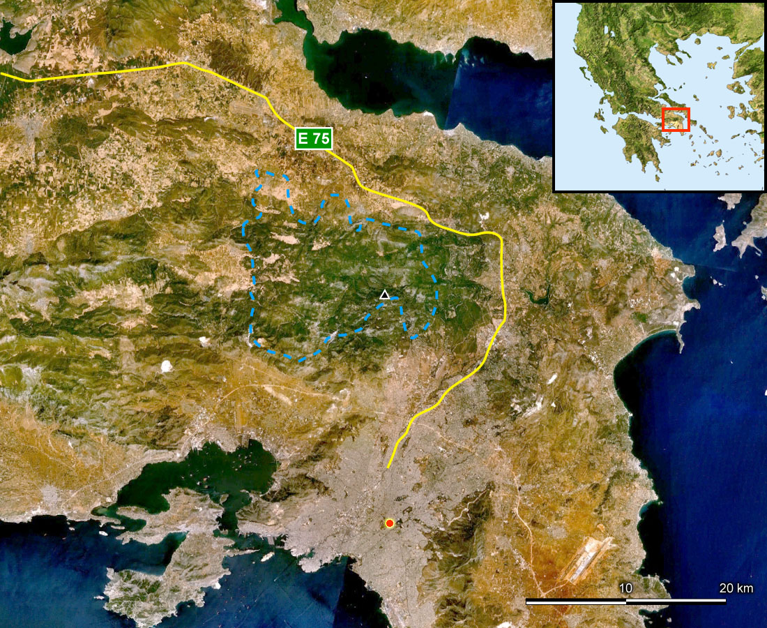 Blank map of the Mount Parnitha's region in Greece.